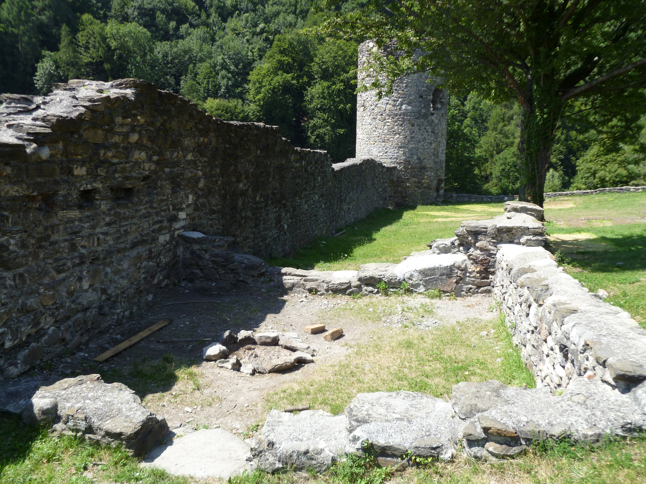 RemainsHousing